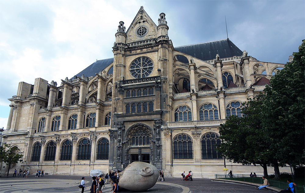 Église Saint-Eustache, Paris with the L'écoute sculpture by Henri de Miller